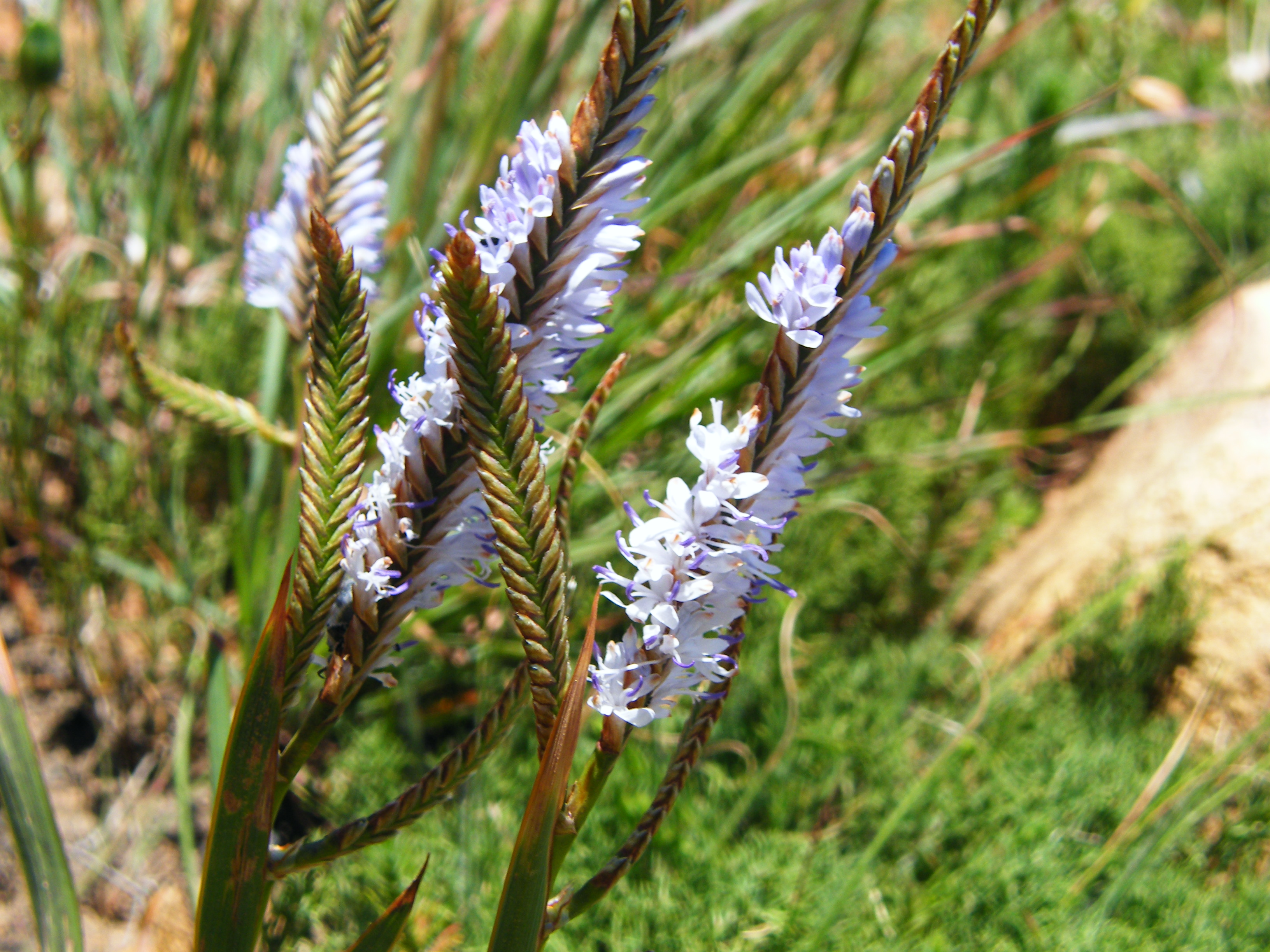 Comb flower